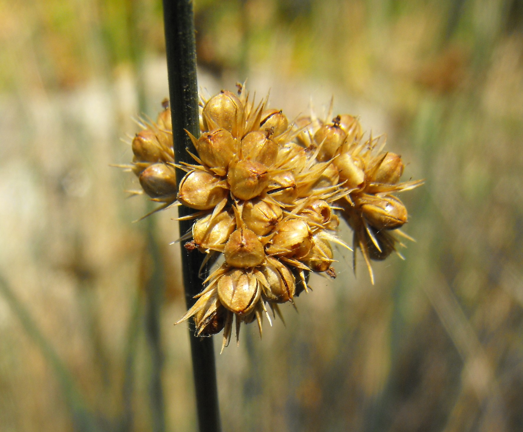 Juncus patens — Spreading rush. At the San Diego Zoo Safari Park, Escondido, California. Identified by sign.